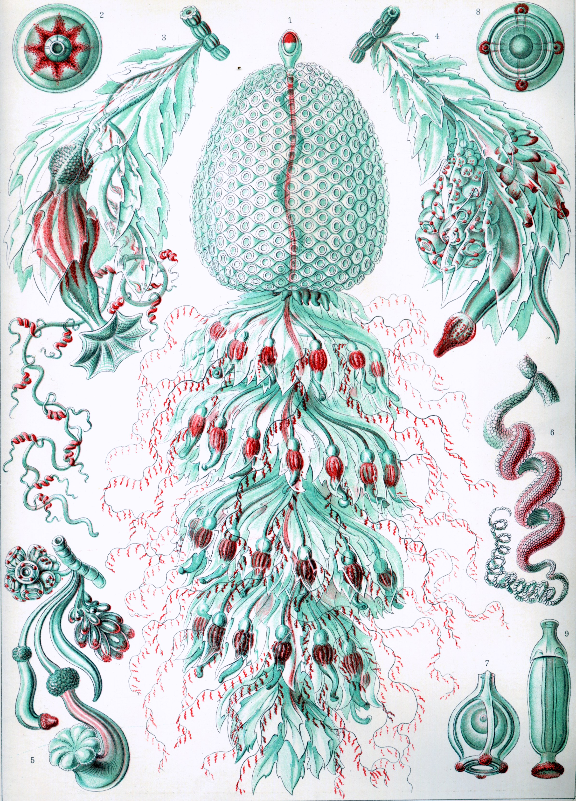 See full-size image for index to numbers. "Strobalia cupola" (Haeckel) = Forskalia sp.?, colony "Strobalia cupola" (Haeckel) = Forskalia sp.?, gas bladder from above "Strobalia cupola" (Haeckel) = Forskalia sp.?, polyp/medusae cluster with all but the feeding apparatus and cover removed "Strobalia cupola" (Haeckel) = Forskalia sp.?, polyp/medusae cluster with the feeding apparatus removed "Strobalia cupola" (Haeckel) = Forskalia sp.?, polyp/medusae cluster with the cover removed "Strobalia cupola" (Haeckel) = Forskalia sp.?, stinging tentacle "Strobalia cupola" (Haeckel) = Forskalia sp.?, female medusa from the side "Strobalia cupola" (Haeckel) = Forskalia sp.?, female medusa from below "Strobalia cupola" (Haeckel) = Forskalia sp.?, male medusa